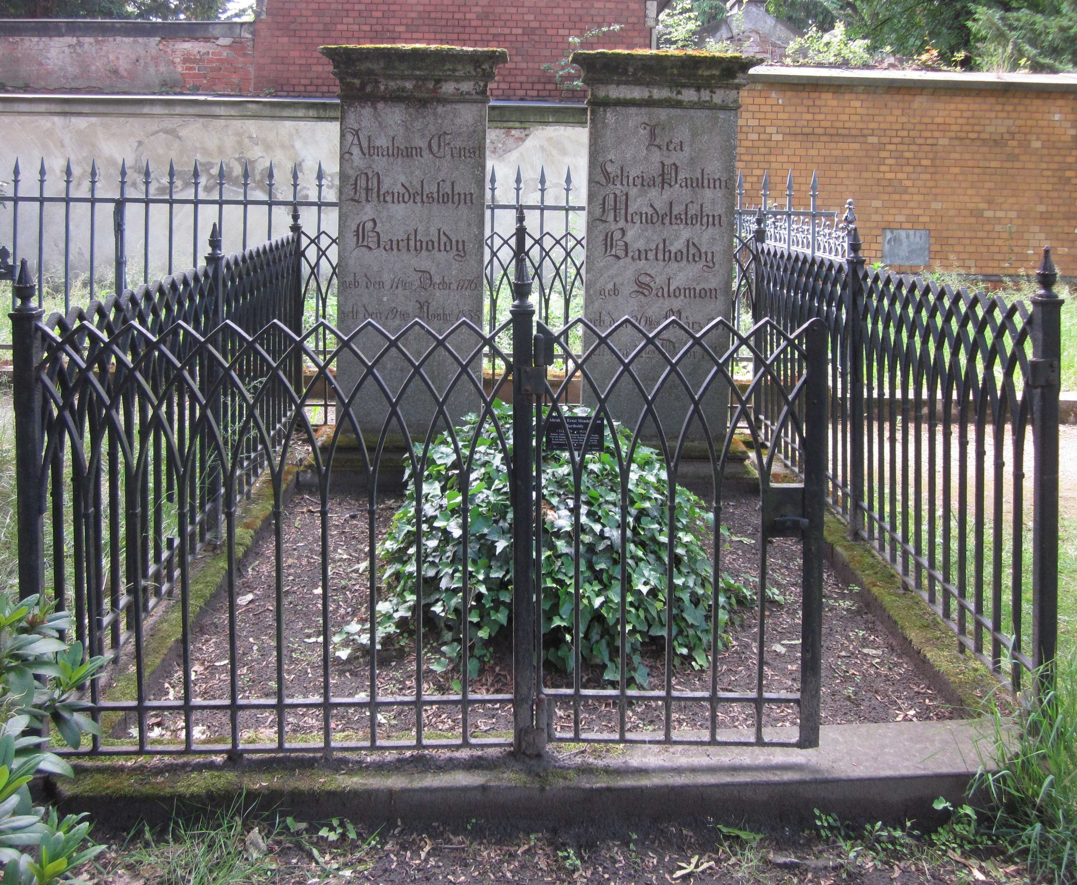 Grave of the banker Abraham Mendelssohn Bartholdy (1776-1835) and of his wife Lea, née Salomon (1777-1842), the parents of the composer Felix Mendelssohn Bartholdy, on the Cemetery I of Trinity Church in Berlin-Kreuzberg (grave field 1). Grave of Honor of the State of Berlin.